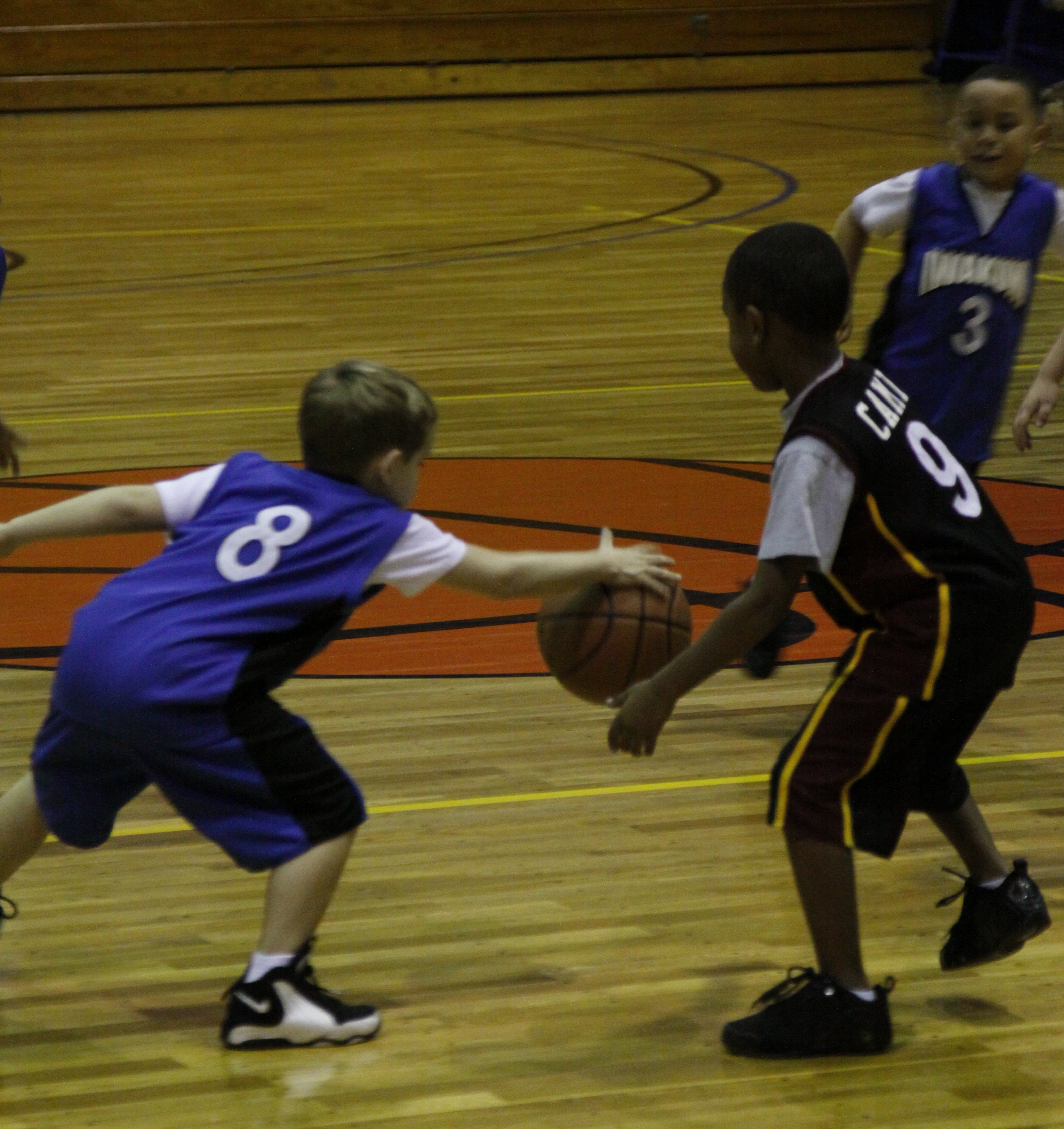 Damiun Chartigny, Blue Bolts point guard, masterfully steals the ball from Cameron Mardis, Heat center, during the Blue Bolts vs. Heat game in the 5- to 6-year-old division at the IronWorks Gym Sports Courts here Jan. 27. The young players showed exceptional skill on the court.